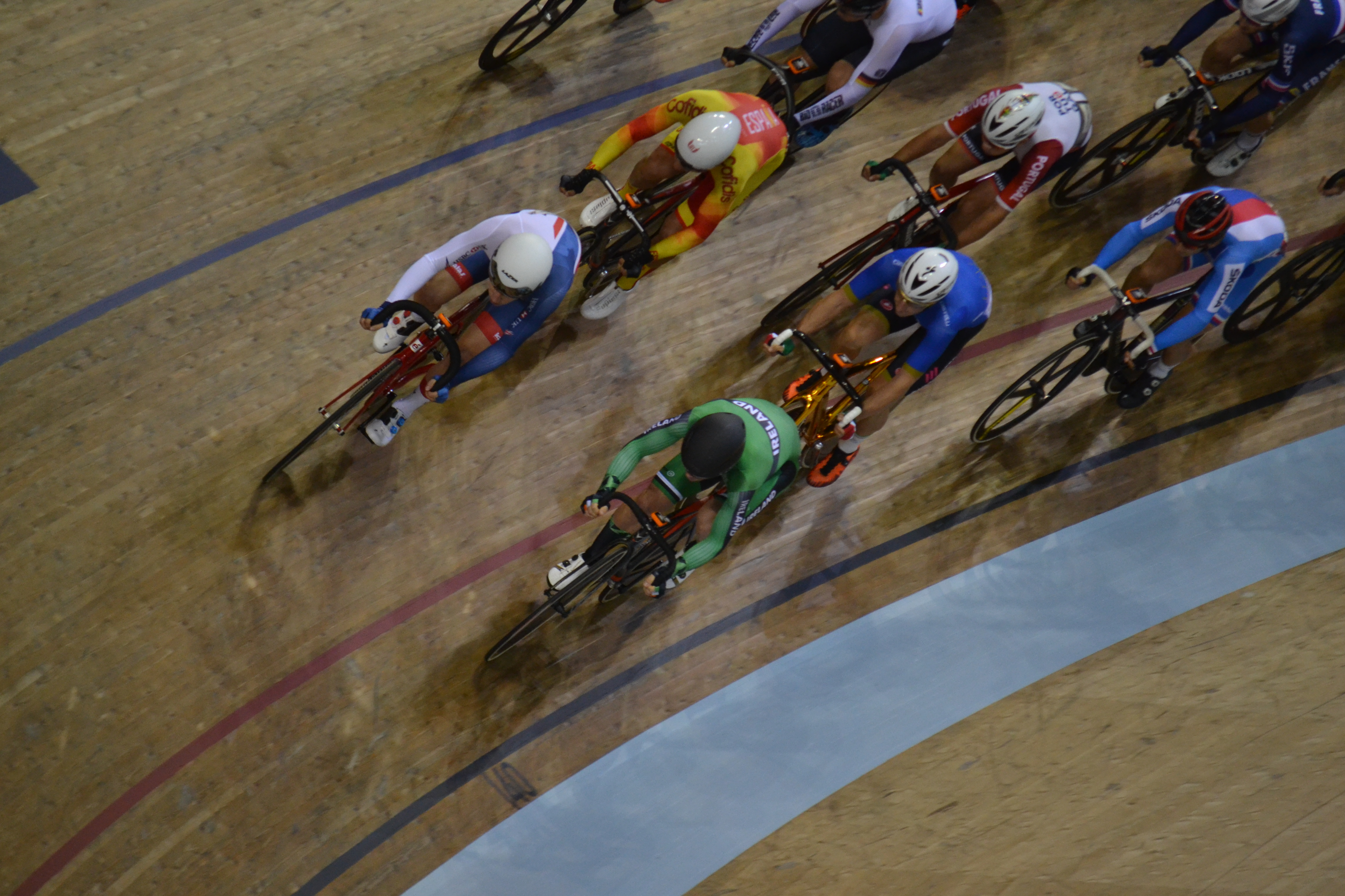 Omnium Men - Elimination - in front: Ethan Hayter (left) and Felix English (in green)